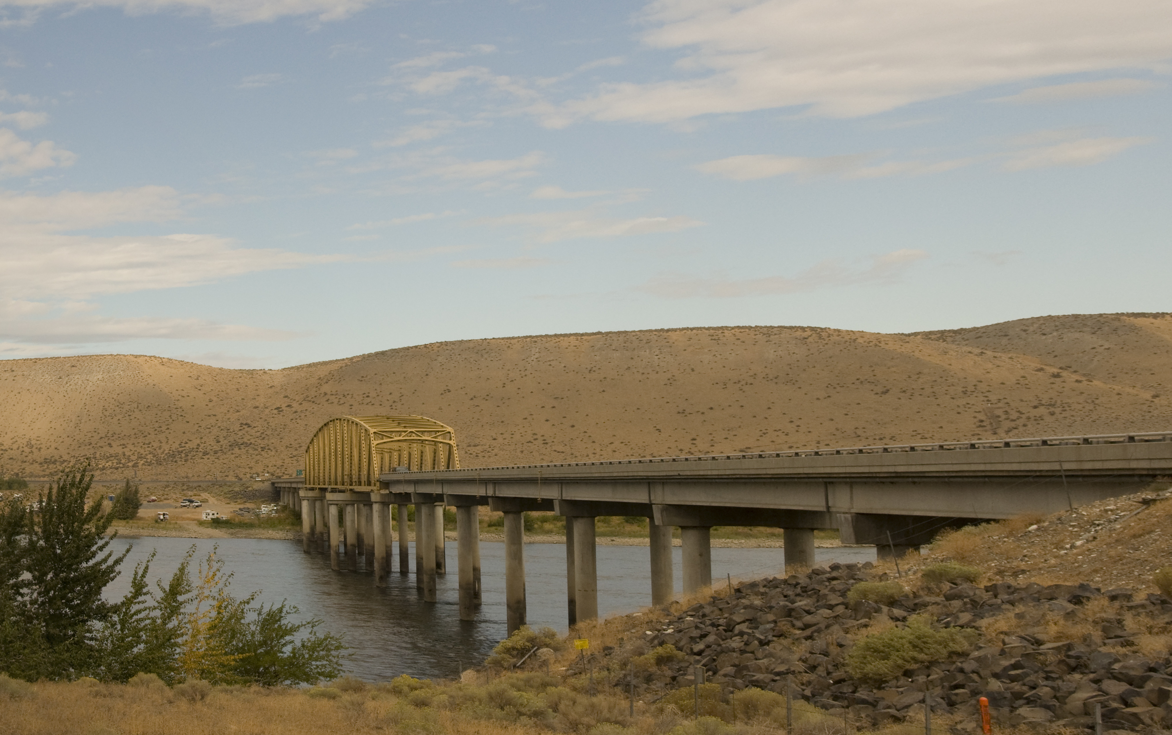 Vernita Bridge over the Columbia River northwest of Richland, WA. Sept. 2009.